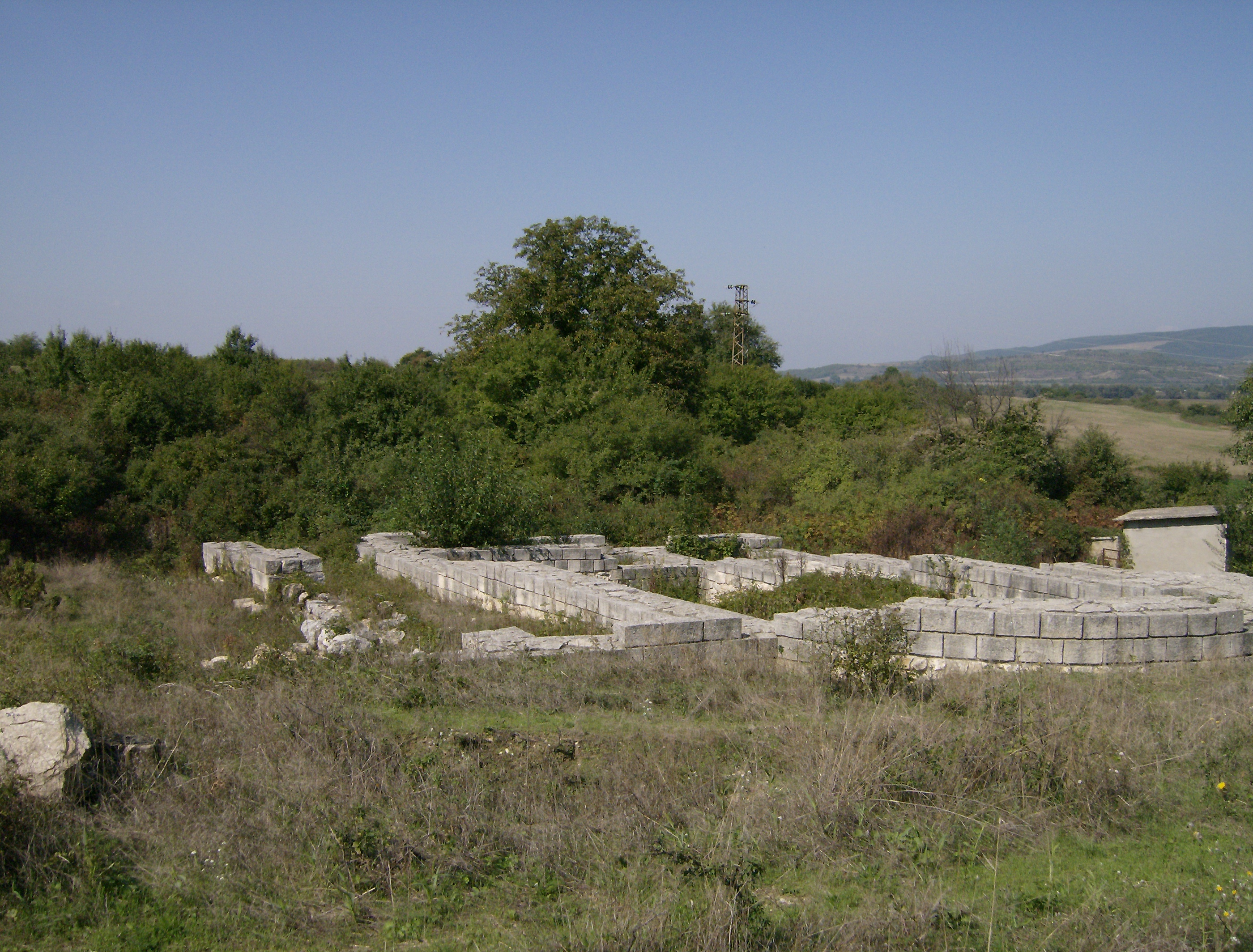 Fortress of Khan Omurtag